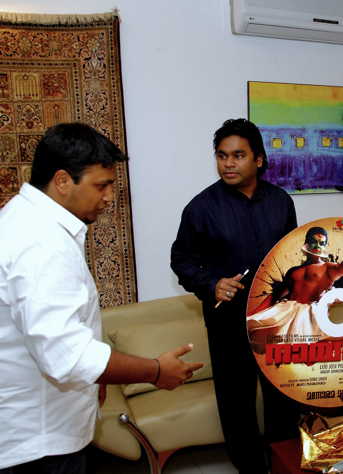 A.R.Rahman releasing Prashant Pillai's music - Nayakan. Nayakan is directed by Lijo Jose Pelliserry.